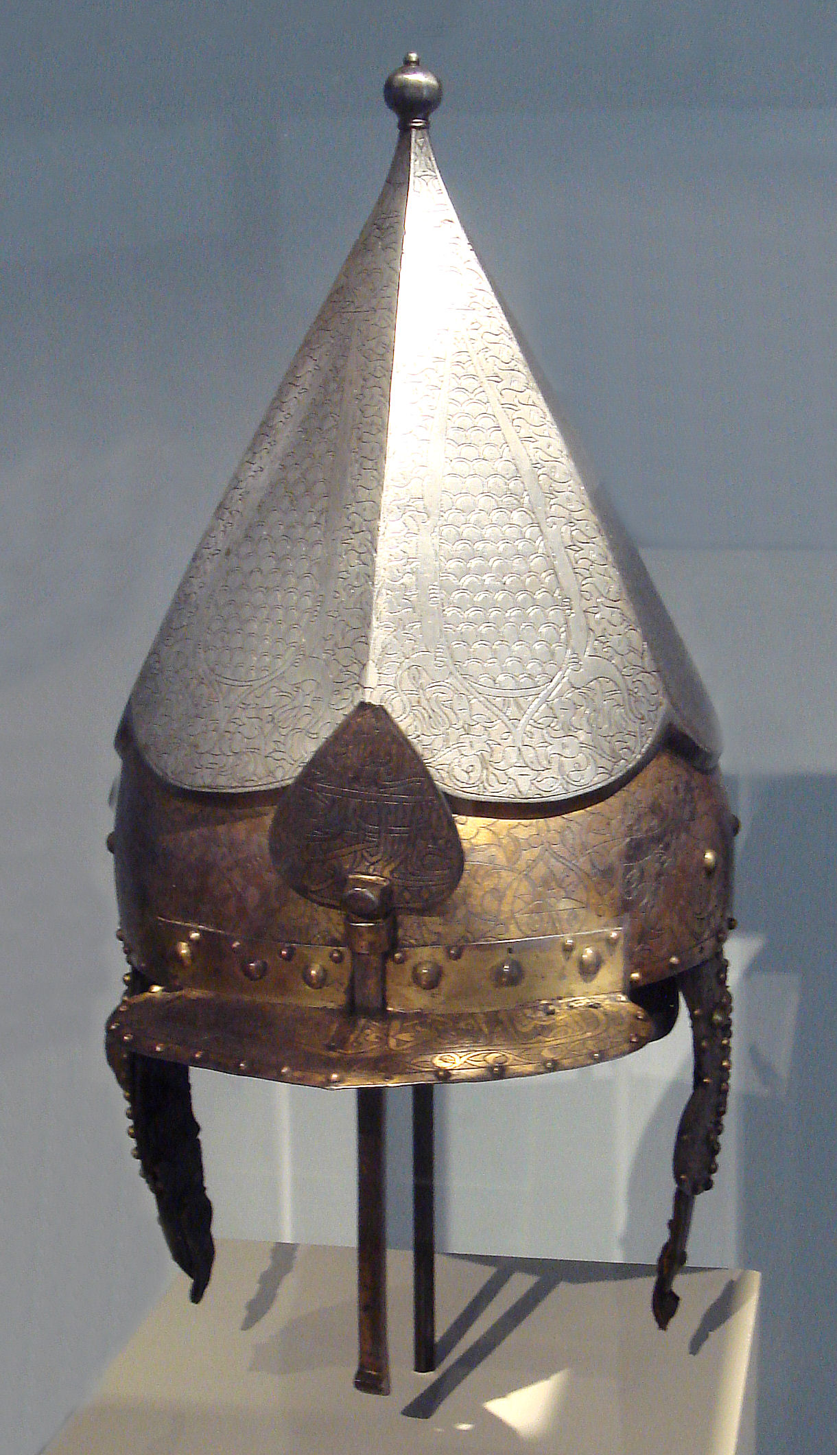 Ottoman_helmet_made_in_Saint_Irene_arsenal_Constantinople_circa_1520.